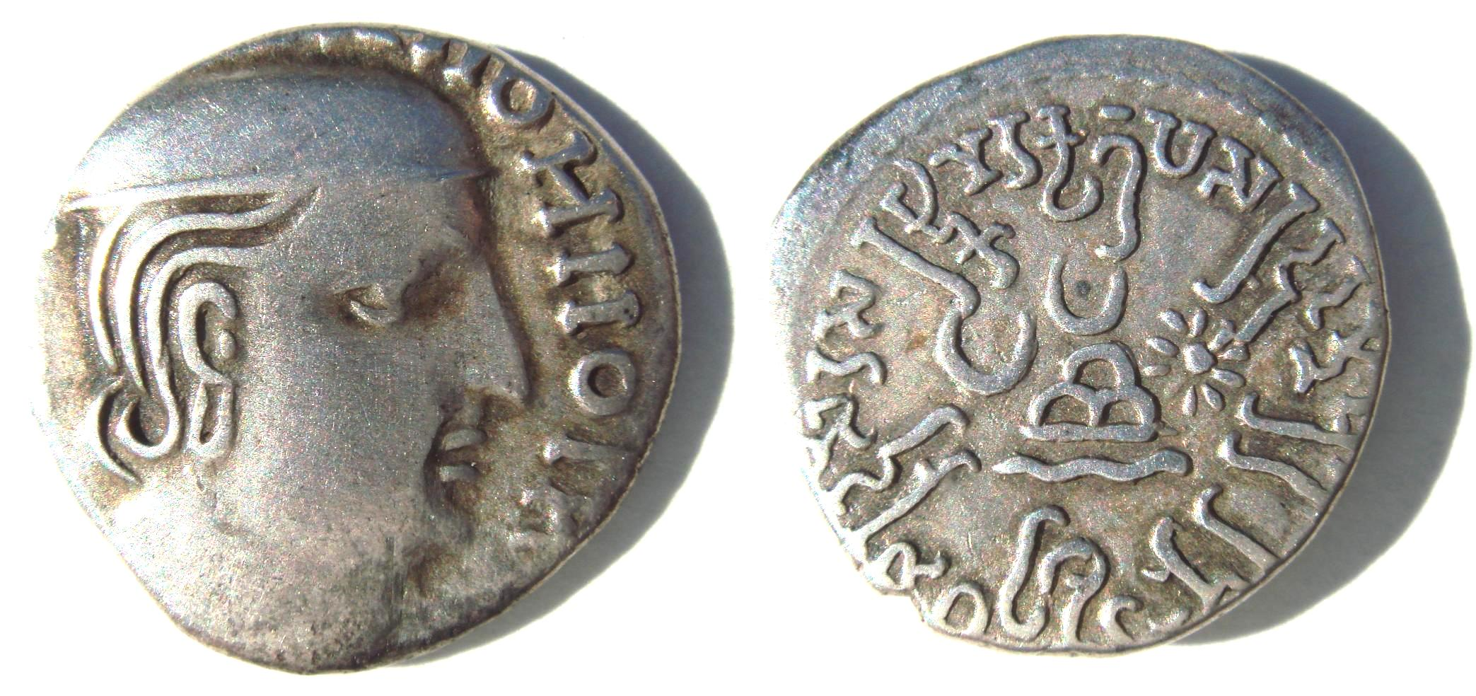 Coin of the Western Kshatrapas Rudrasimha I (known dates: 178 to 197 CE, reign started earlier).